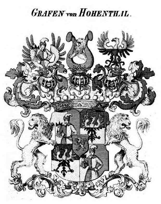 Wappen Hohenthal - Tyroff HA.jpg